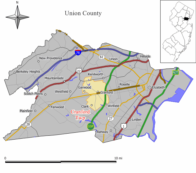 Source: Jim Irwin Original work by Jim Irwin, December 2005.